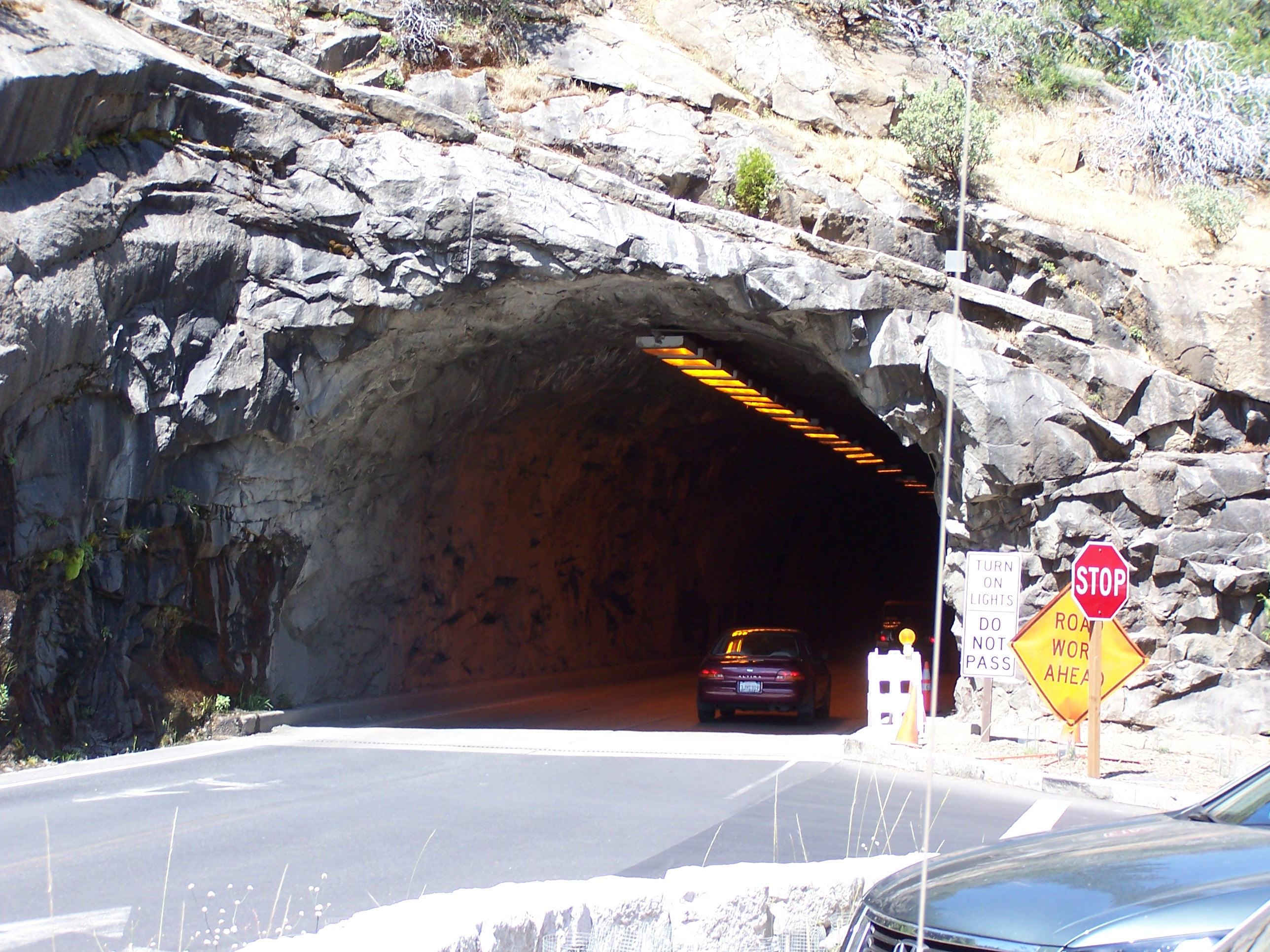 Photo of the east end of the Wawona Tunnel.